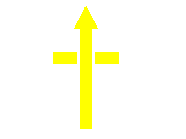 Mark of Ww2 GermanDivision Panzer 20 during WWII- Variant